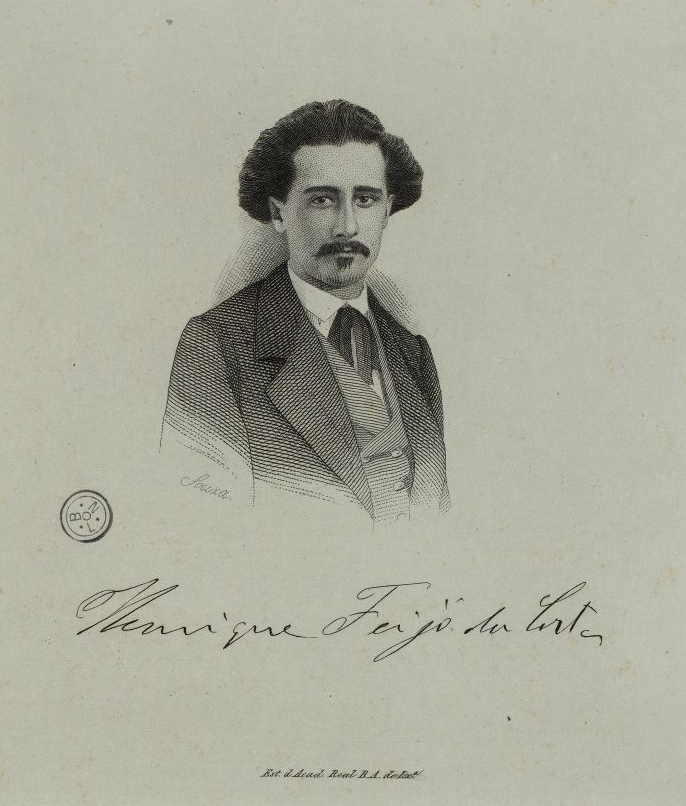 Henrique Feijó da Costa (1842-1864)